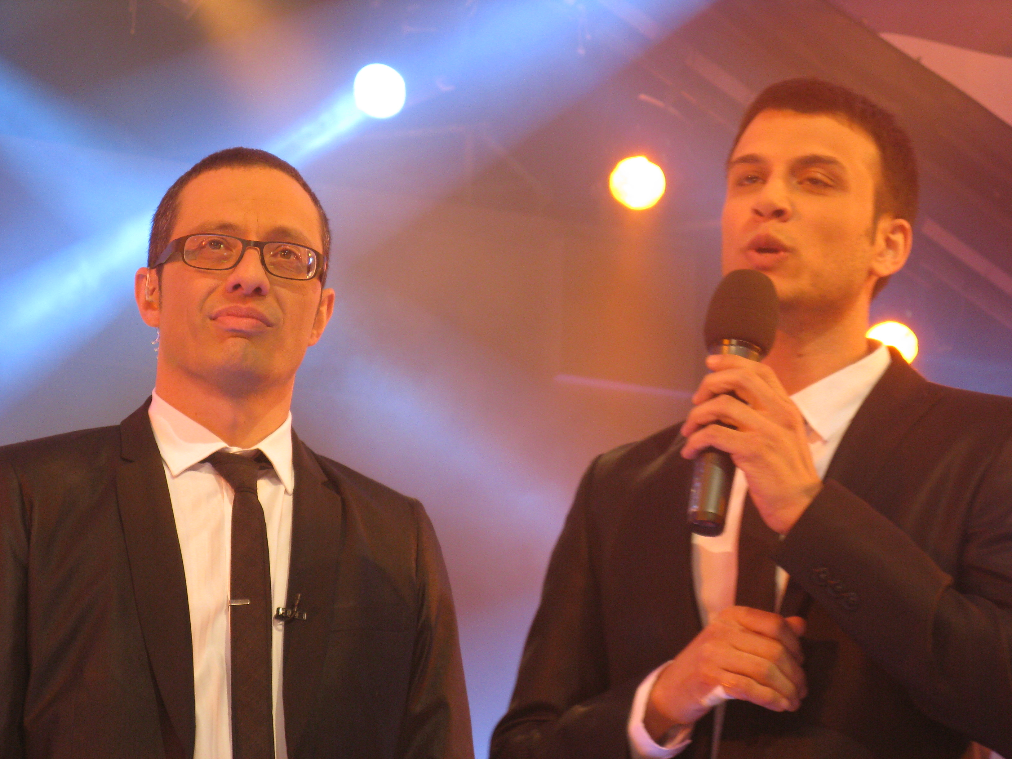 The big brother season 1 final in israel. Erez Tal and Assi Azar.